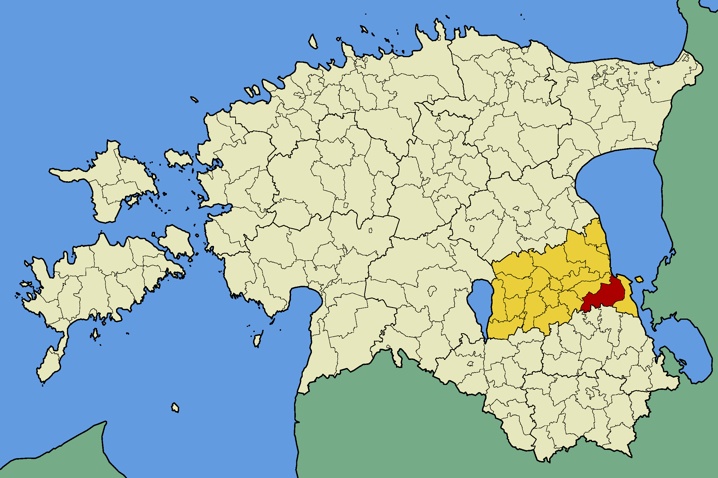 Map of Estonia with borders of municipalities (parishes). Tartu county and Võnnu municipality emphasized.